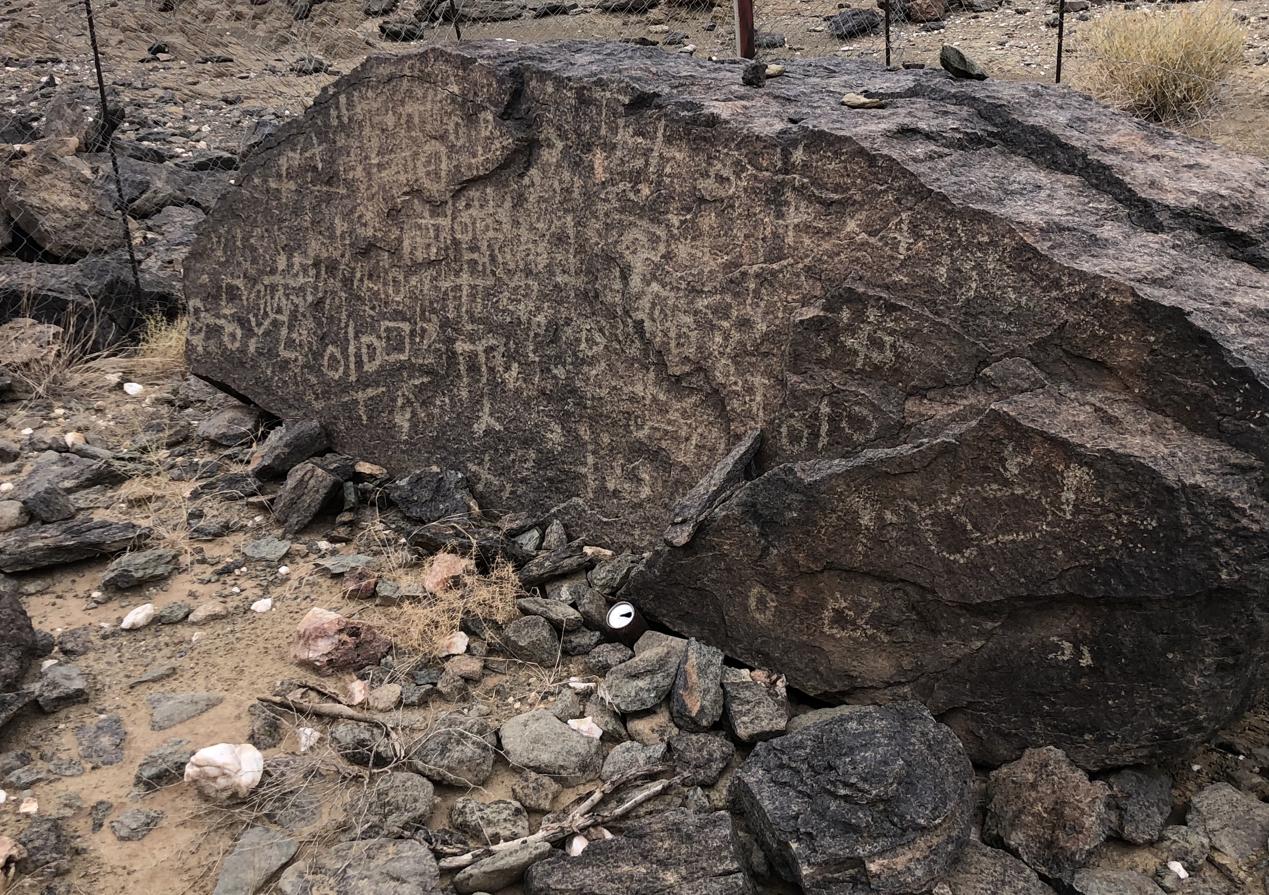 نقش بخط المسند في الجهفة من بارق ، على سكة القوافل القديمة.